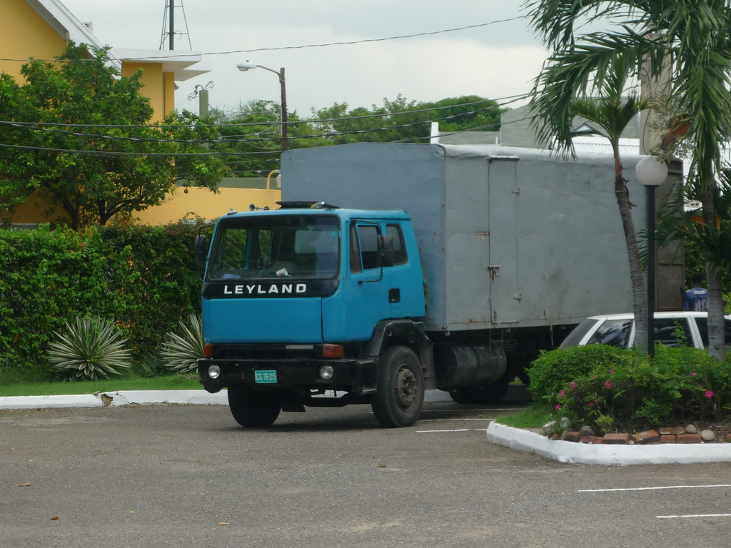 This pretty well maintained example was spotted at an apartment complex in Kingston, Jamaica.